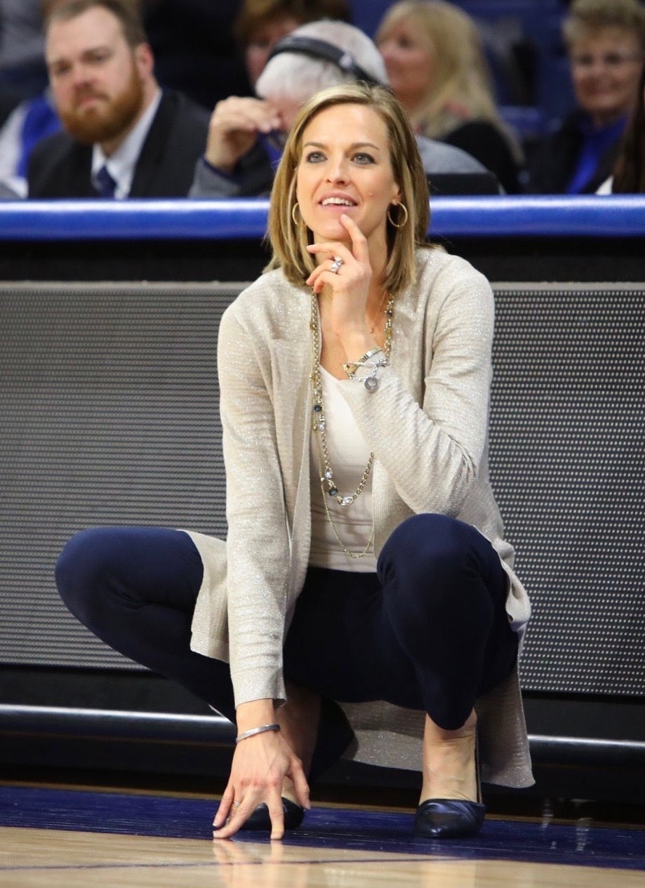 Jennie Baranczyk coaching a game at Drake University